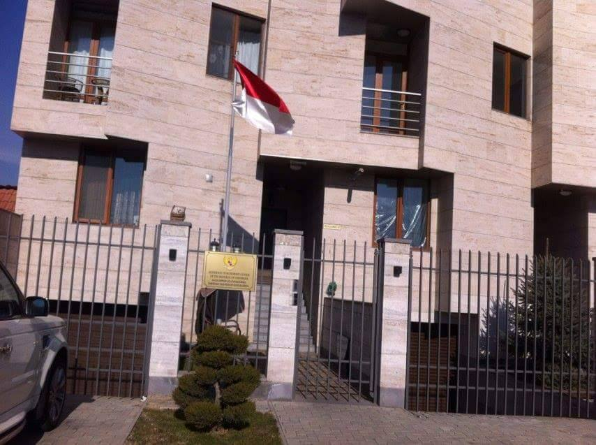 Honorary Consulate of Indonesia, Armenia